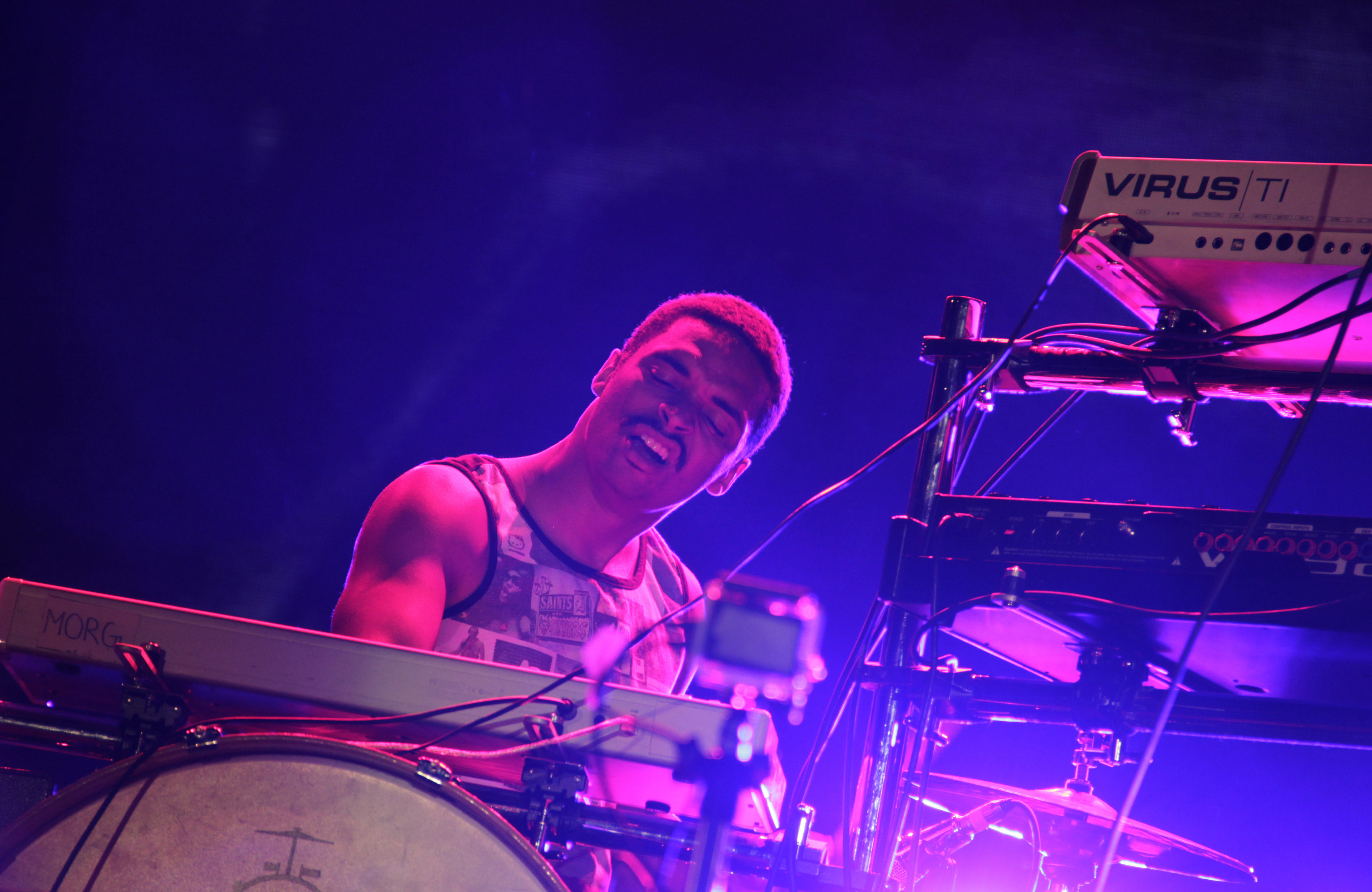 Deantoni Parks with Bosnian Rainbows, July 1, 2013